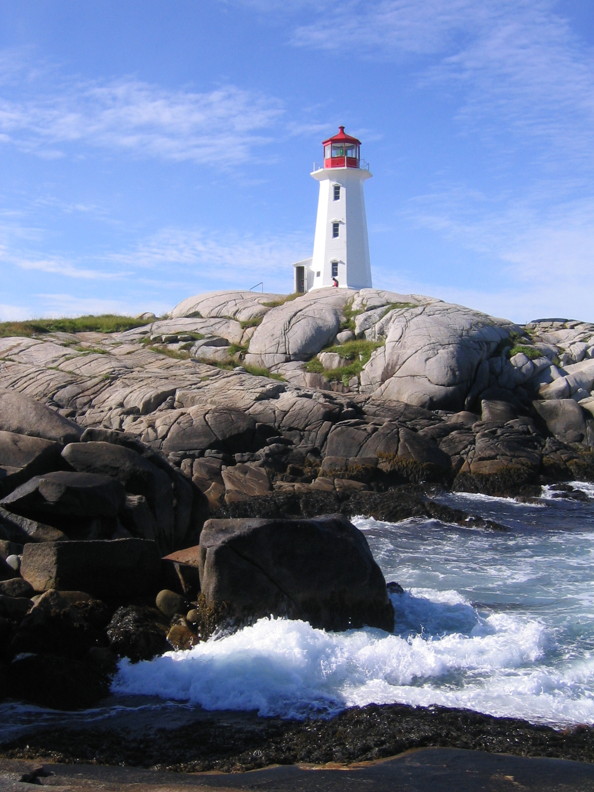 Lighthouse of Peggys Cove, Nova Scotia